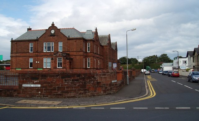 Troon Primary School Pictured Saturday 1st August 2009 3.50p.m.